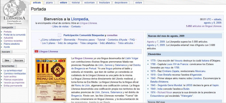 Main page of Llionpedia, Enciclupedia en Llingua Llïonesa